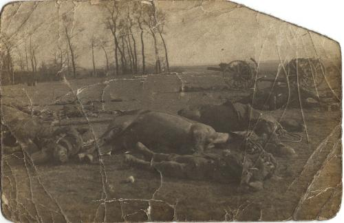 British dead after the Battle of Le Cateau in World War I.